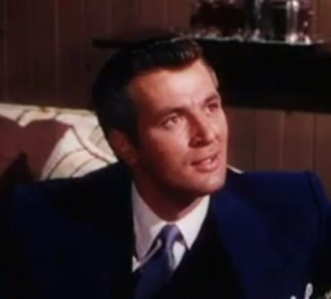 Gregg Palmer in trailer for "Magnificent Obsession" (1954)